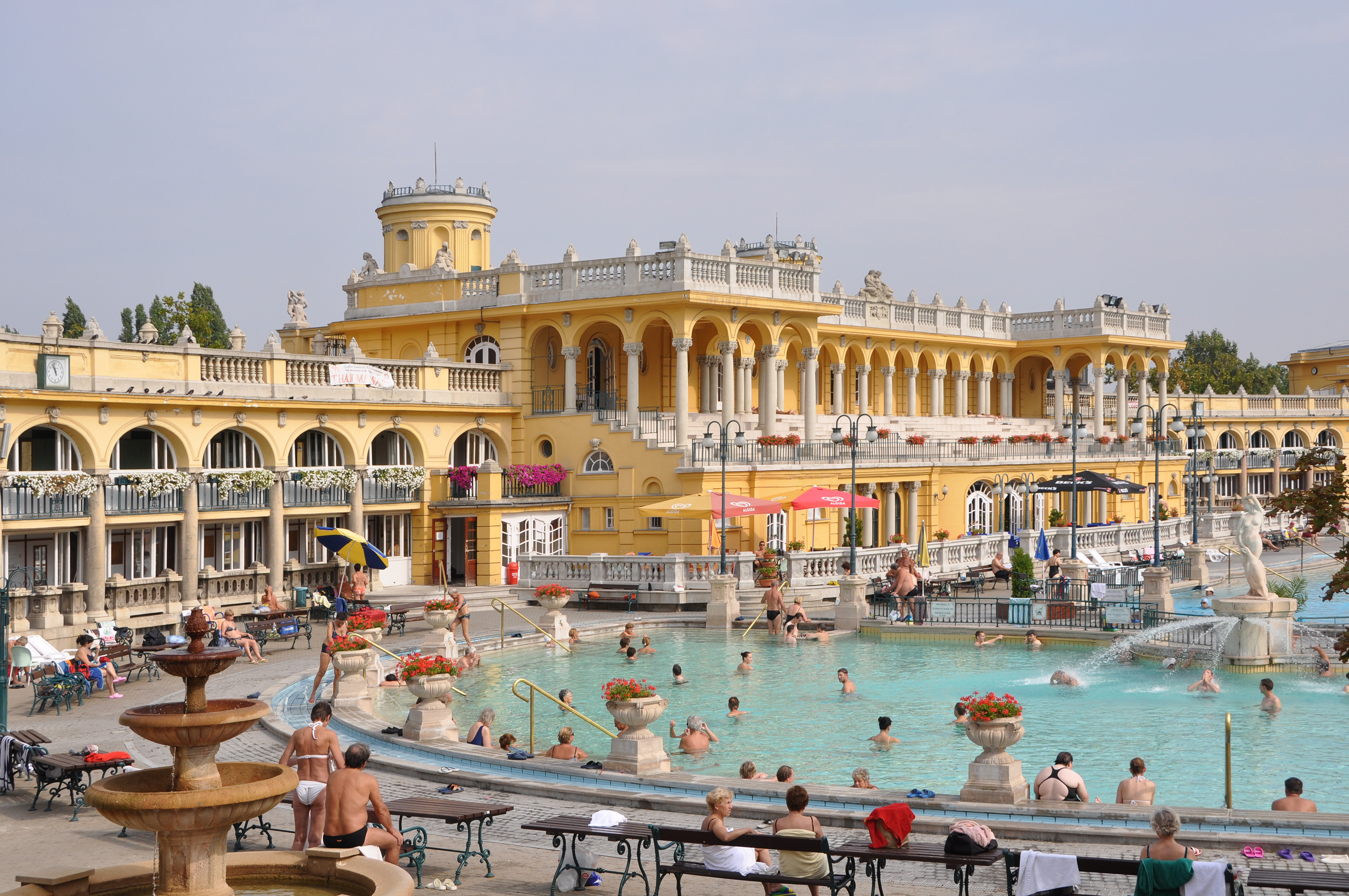 Budapest (Hungary): Széchenyi thermal baths